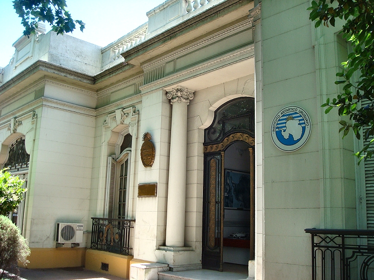 Instituto Antartico Uruguayo, La Blanqueada, Montevideo, Uruguay.